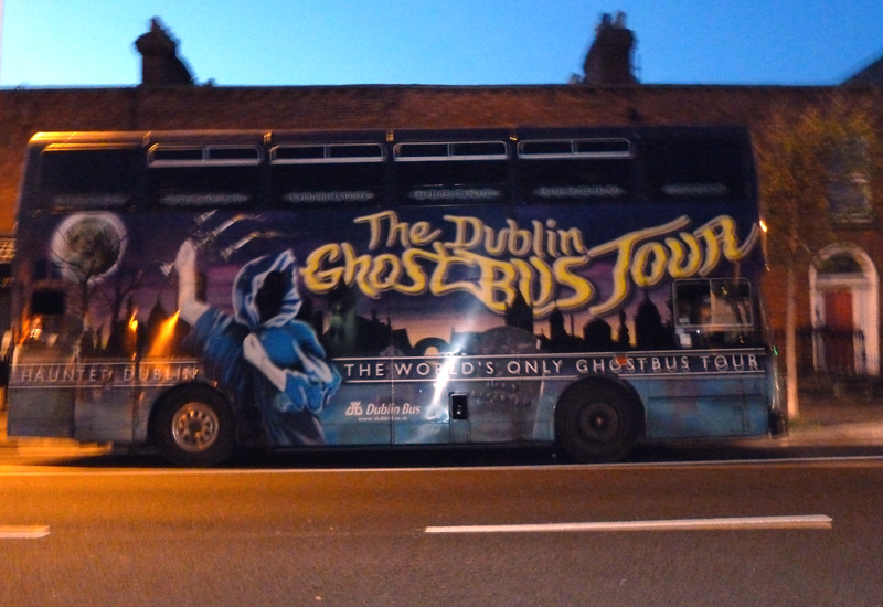 The Dublin Ghostbus, taken by me in January 2011 in Dublin, Ireland.